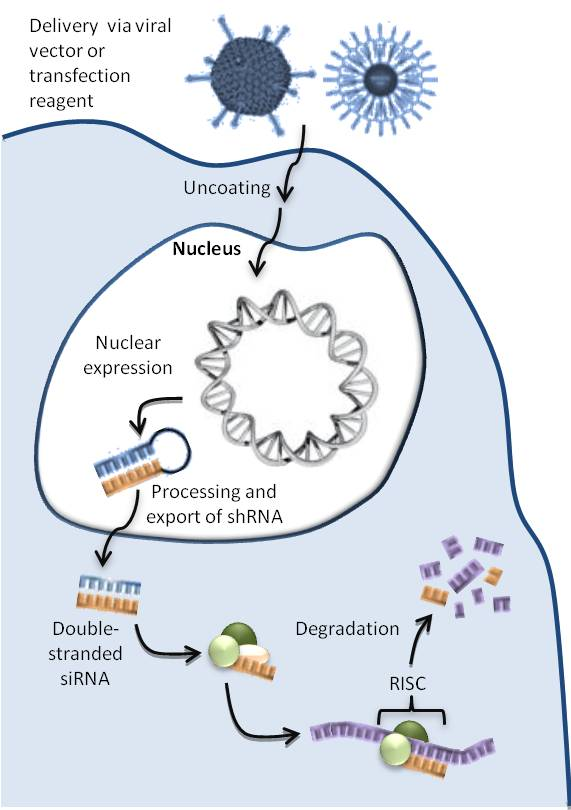 Biochemical pathway of the process of ddRNAi